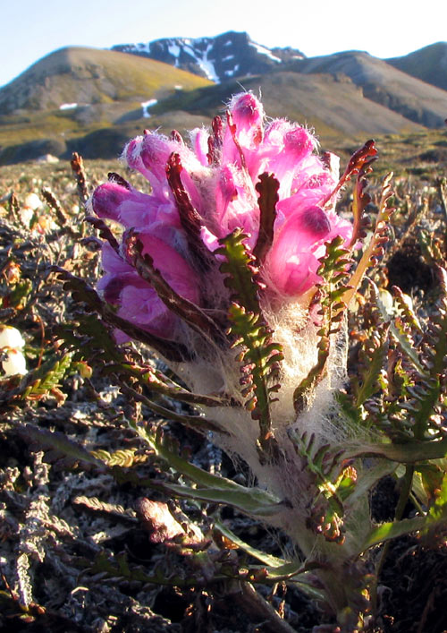 Woolly Lousewort,Pedicularis dasyantha, Svalbard, Juzly 2004, by Michael Haferkamp